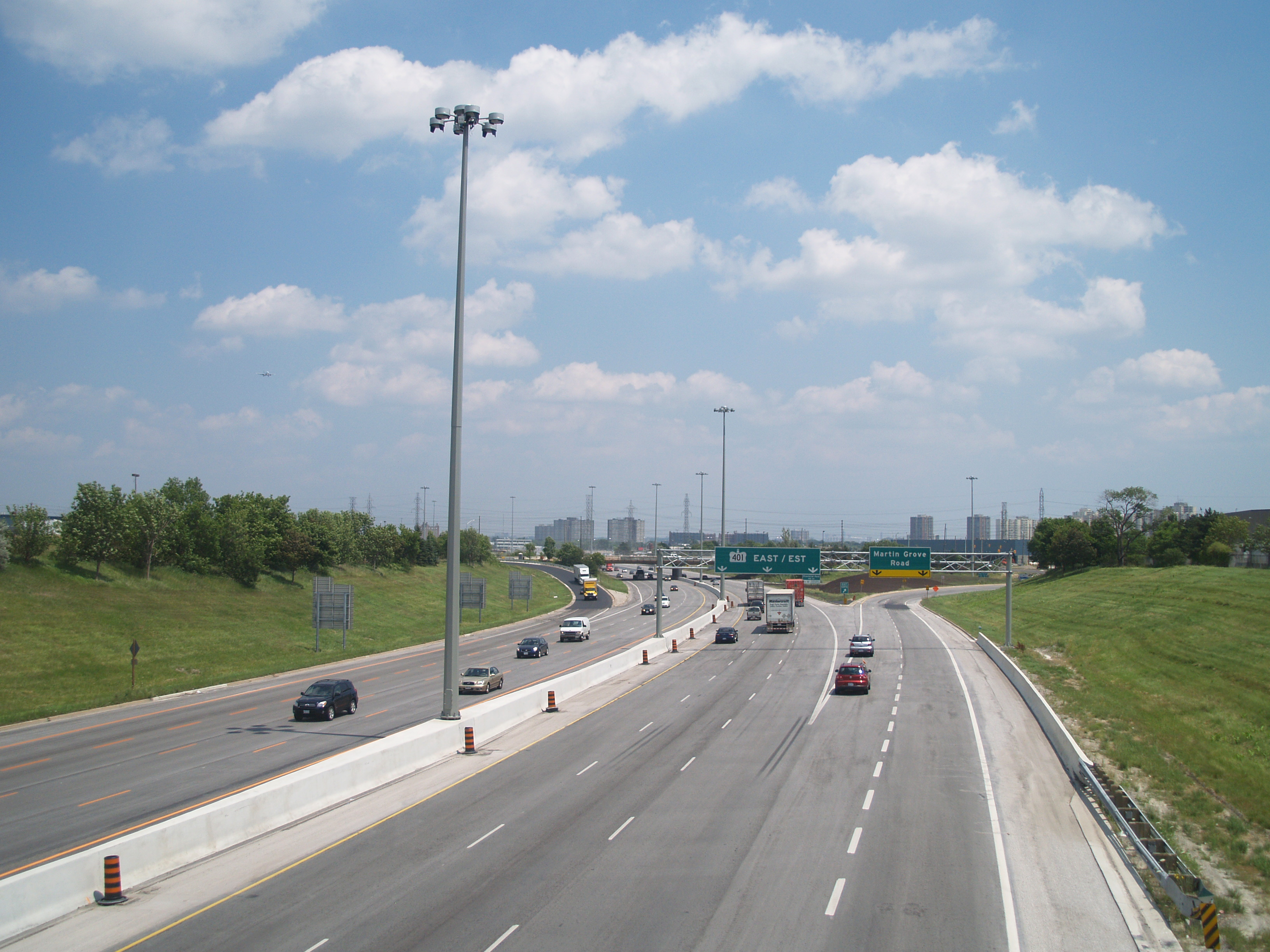 Ontario Highway 409 looking east from the Iron Street overpass.